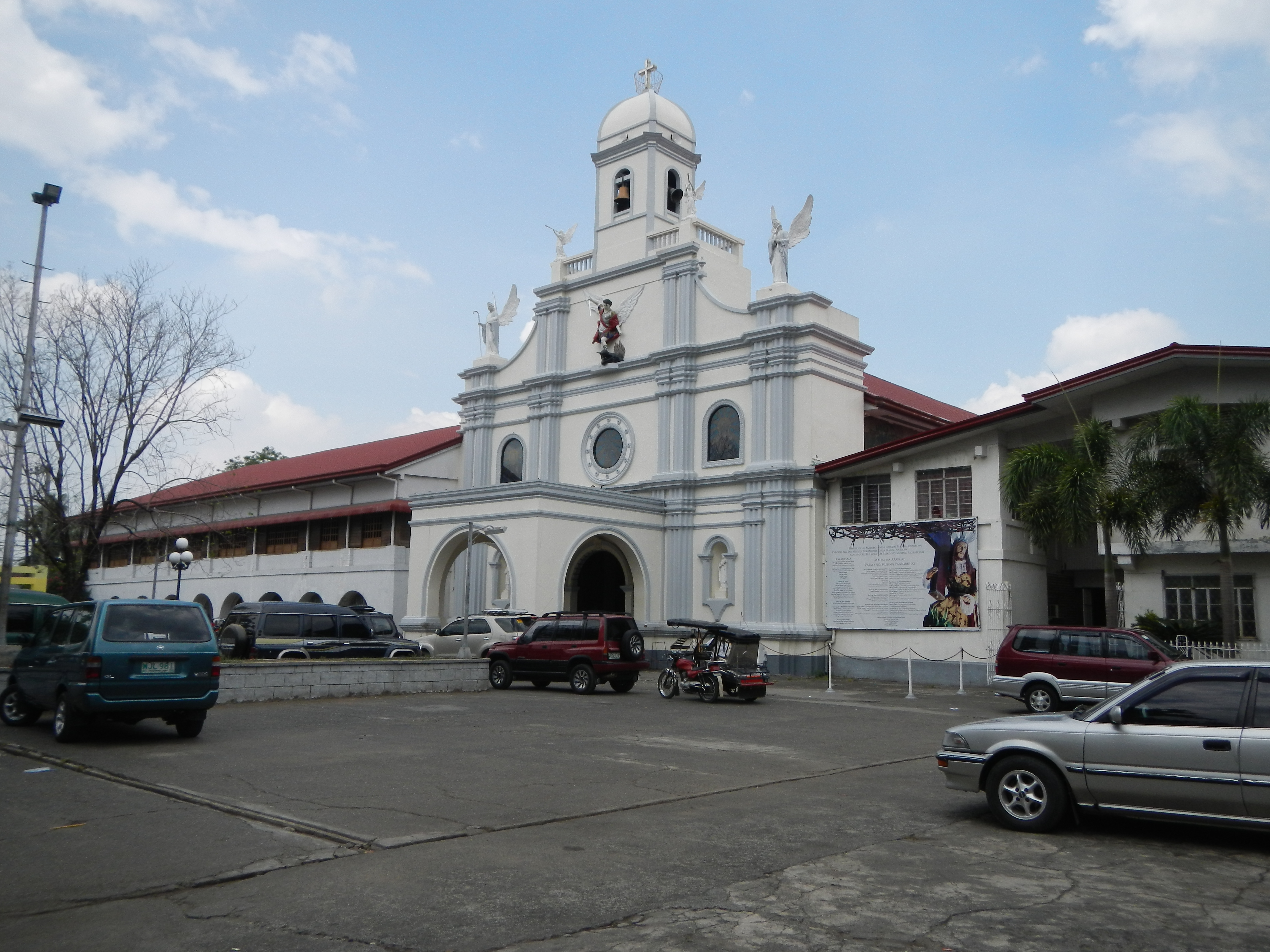 Saint Michael the Archangel Parish Church in San Miguel, Bulacan in a wedding ceremony, Victor st. cor. Libertad st.